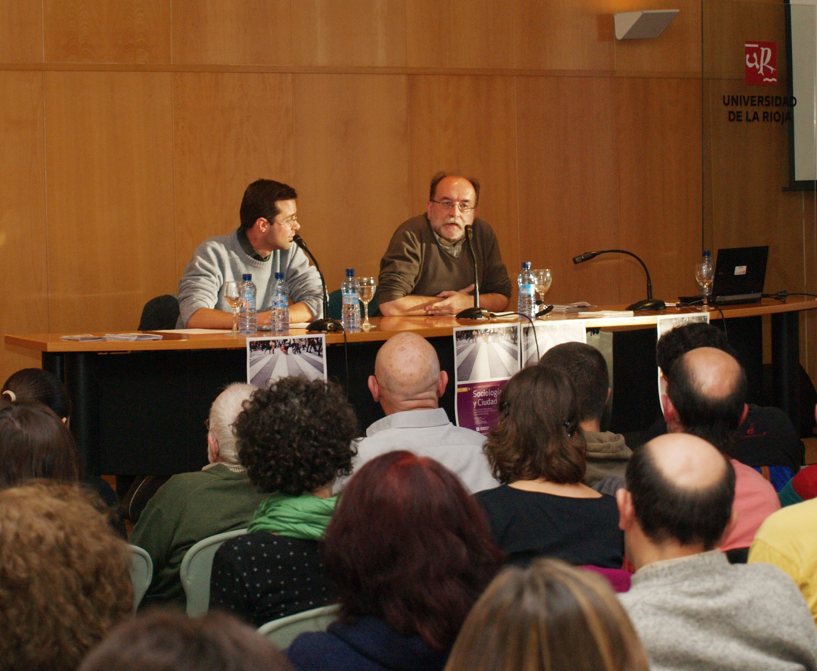 The writter and theacher Carlos Taibo in the University of La Rioja (Spain).